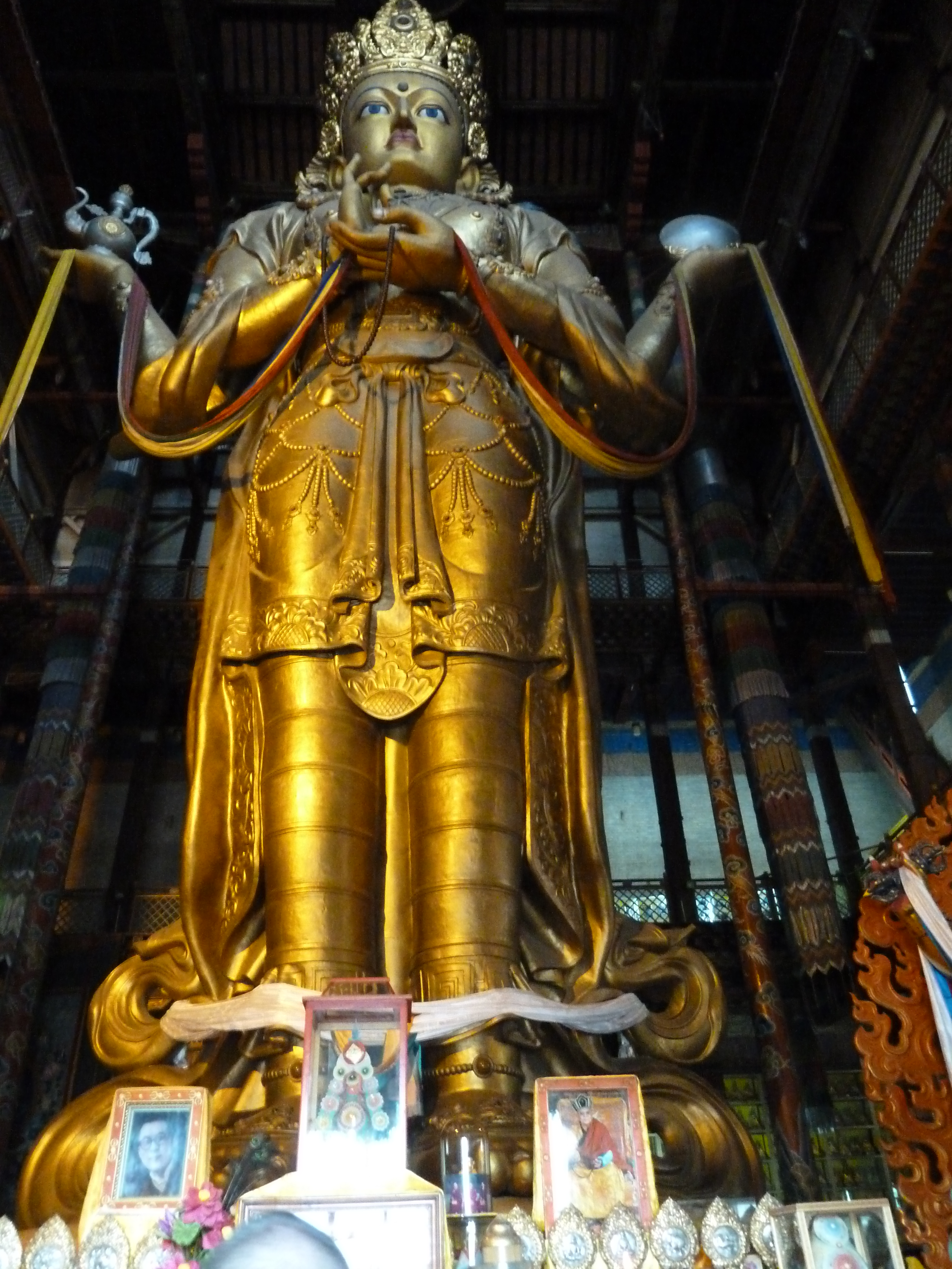 Megjid Janraisig temple. Gandantegchinlen Monastery, Ulan Bator, Mongolia.